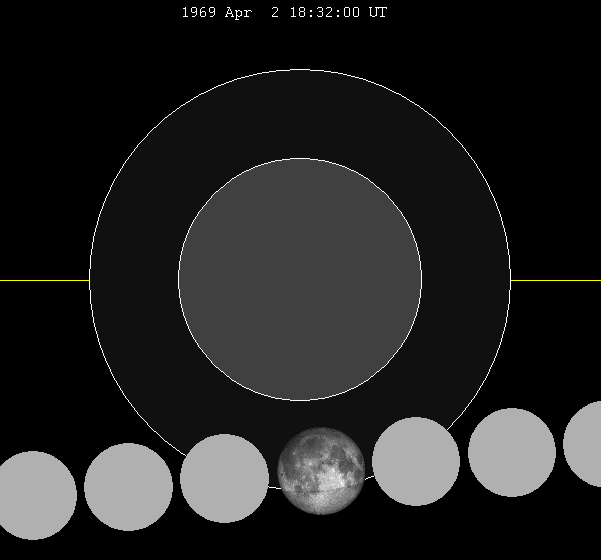 April 1968 lunar eclipse chart of moon's path through the earth's shadow. thumb